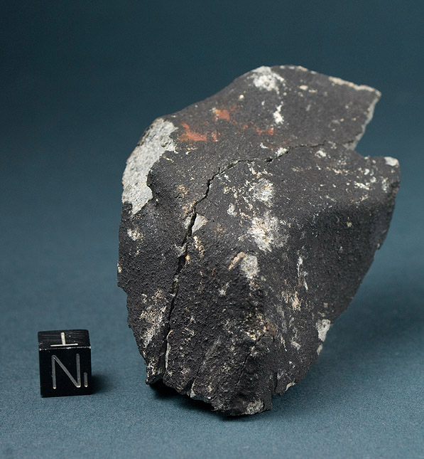 Meteorite fragment of 208g from the Tamdakht fall. Together with seven other fragments which fit together it forms a delta shaped mass of 399g. The larger fragments display numerous impact marks indicating a violent contact with red sandstone and bright limestone gravel